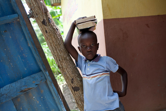 (2011 Education for All Global Monitoring Report) - Rebuilding schools after the 2010 earthquake, Port au Prince, HaitiRomână: Raportul de monitorizare „Educație pentru toți”, 2011: Reconstrucția școlilor din Port au Prince după cutremurul din 2010 din Haiti